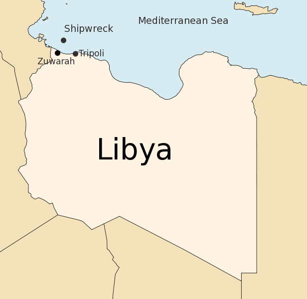 Map showing the location of the 2009 Mediterranean Sea migrant shipwreck capsized on 27 March 2009 near the libyan coast.